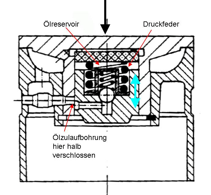 Bucket tappet with hydraulic adjustment of valve clearance as a sectional view.